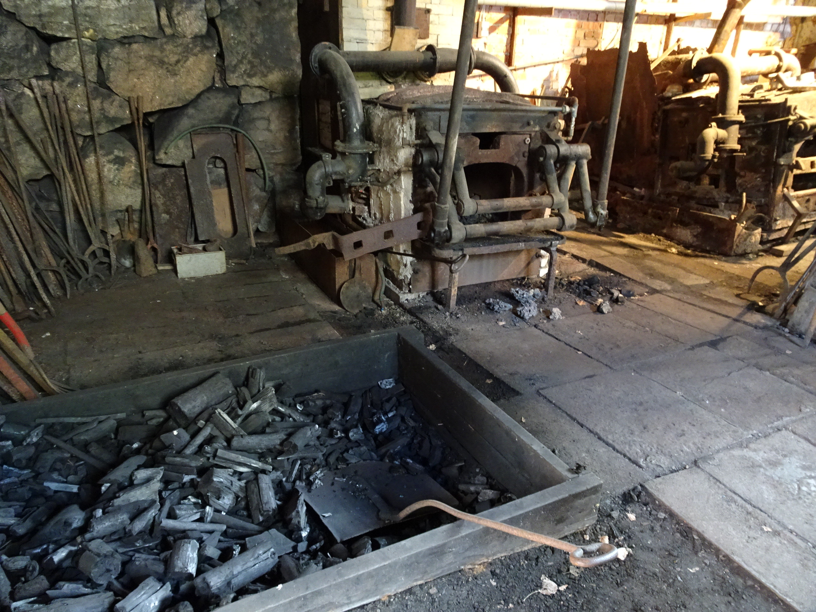 Lancashire hearth at Trångfors finery forge, Hallstahammar, Sweden.